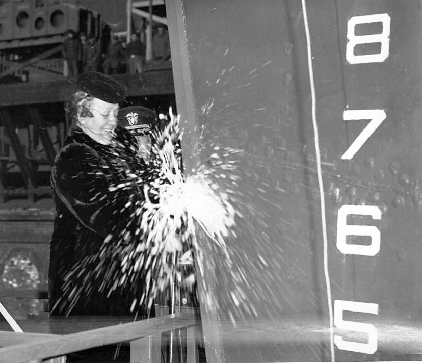 Mrs. Ella M. Powers christens United States Navy destroyer escort USS Oswald A. Powers (DE-542) at the Boston Navy Yard, Boston, Massachusetts